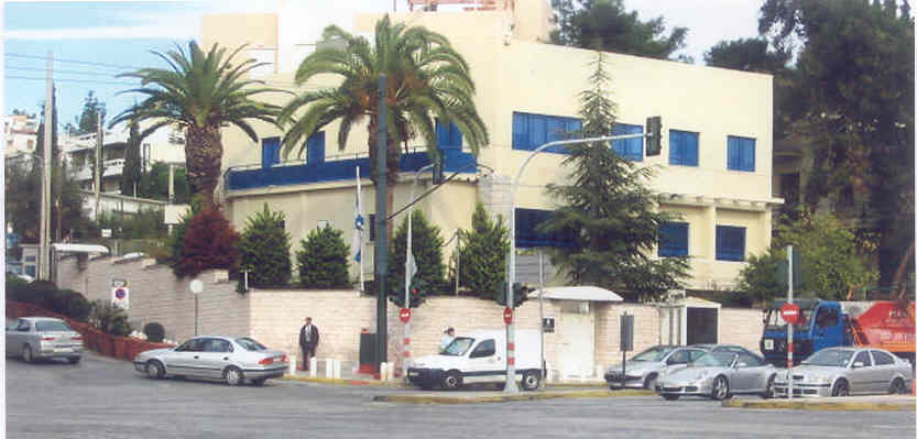 its the embassy how it looks from the outside